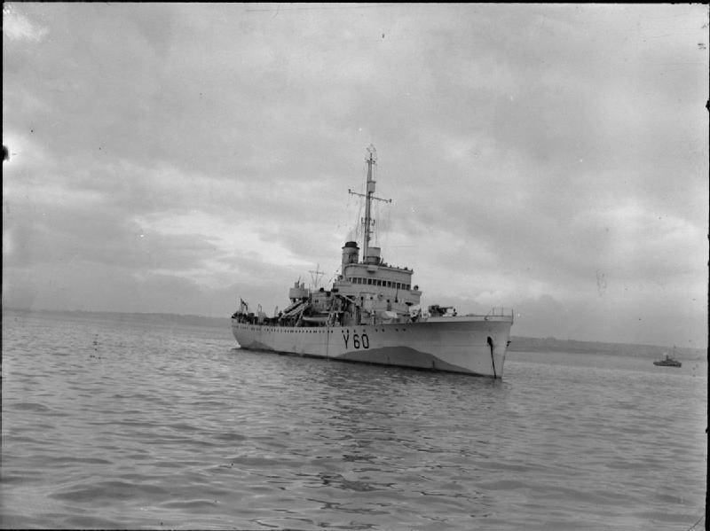 HMS Lulworth At anchor.